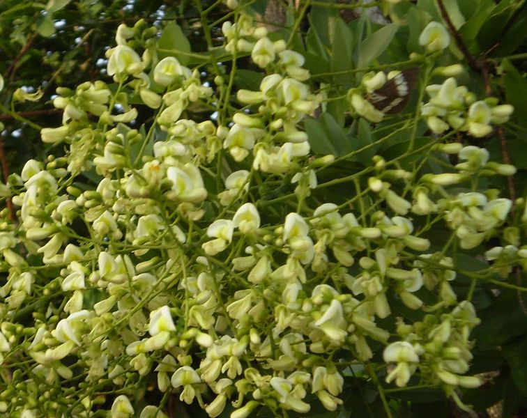 Styphnolobium japonicum, blooming branch